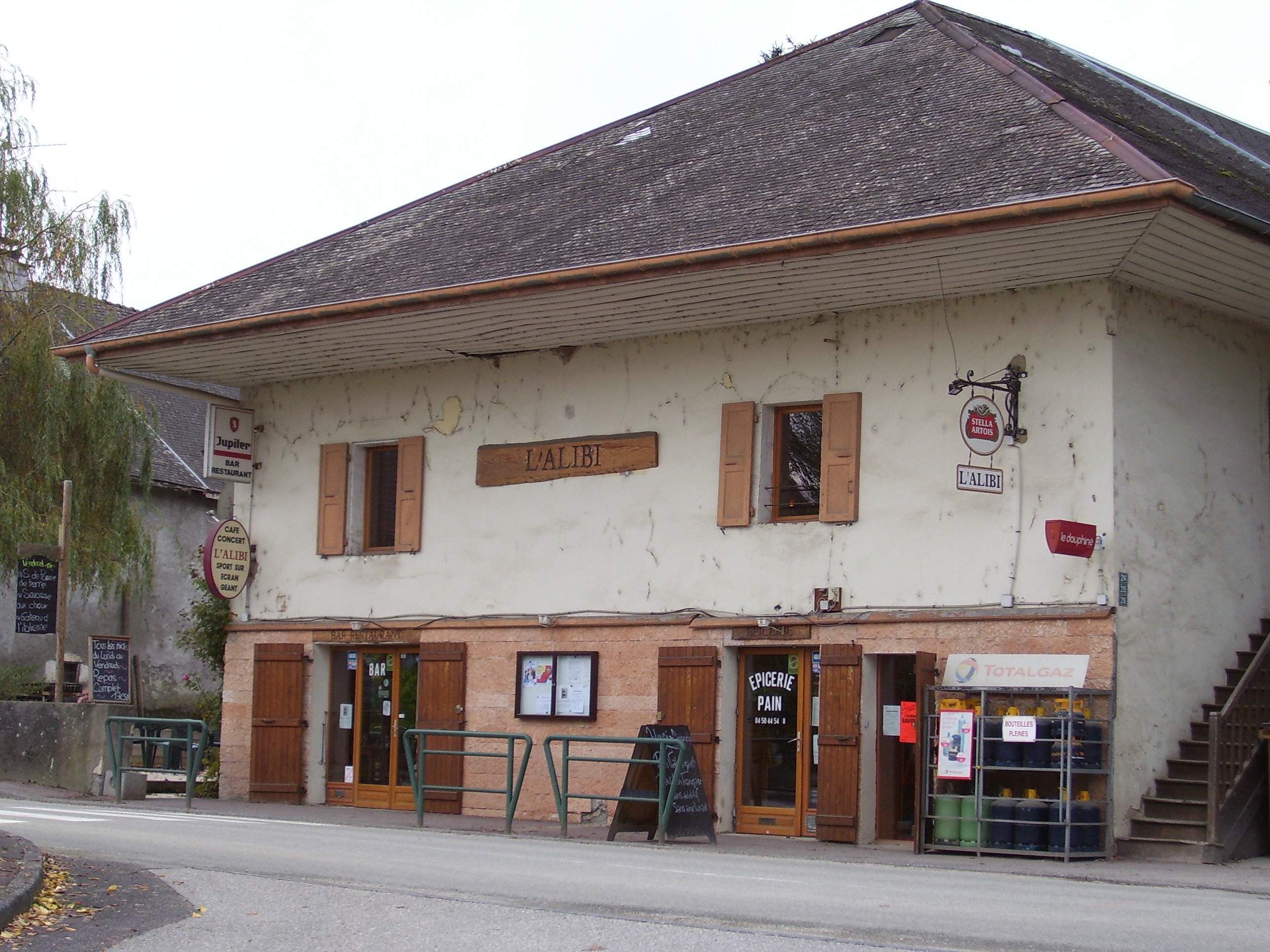 L'Alibi, pub and restaurant of Hery-sur-Alby